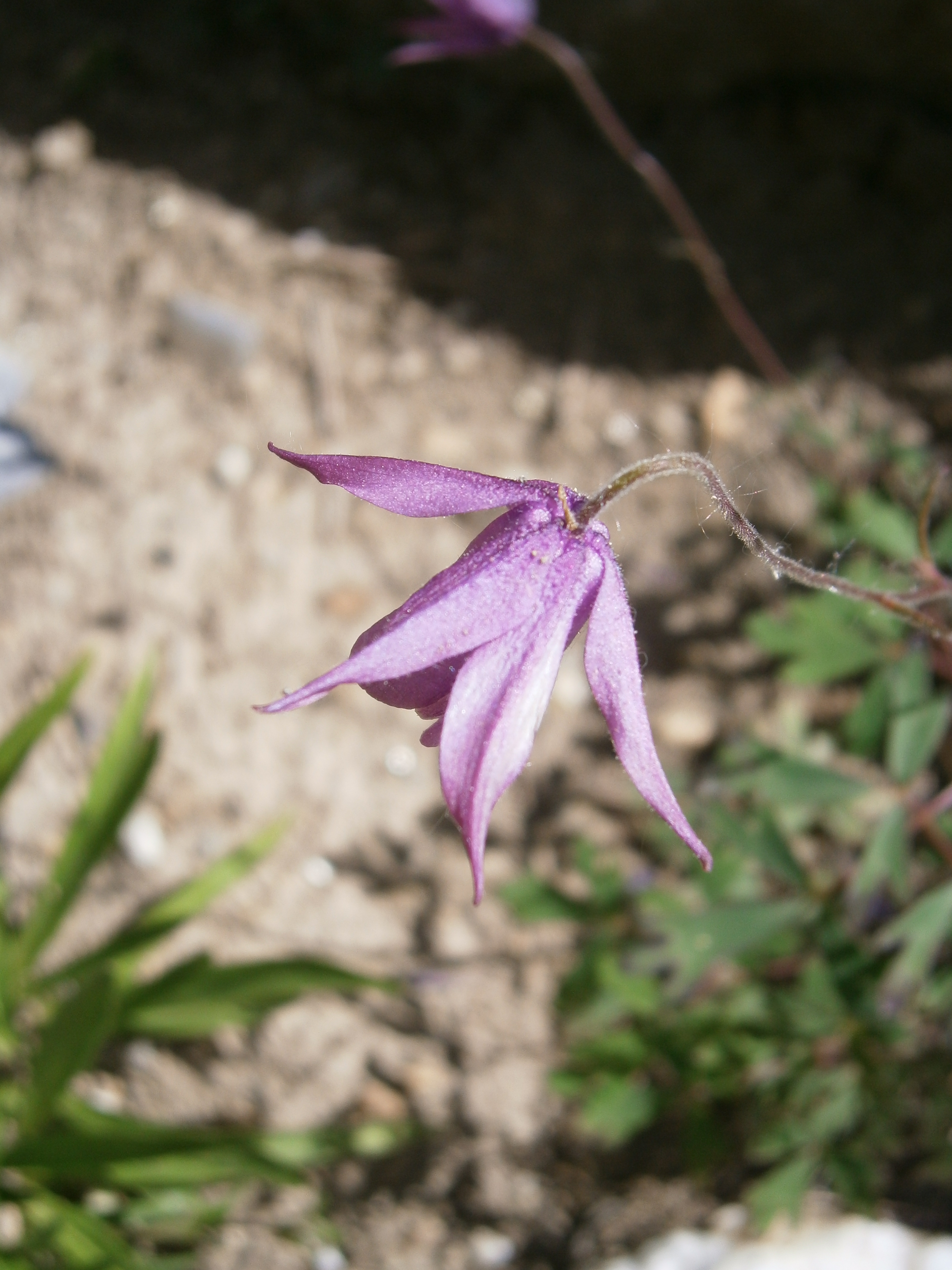 Aquilegia ecalcarata in the Jardin Botanique Alpin du Lautaret